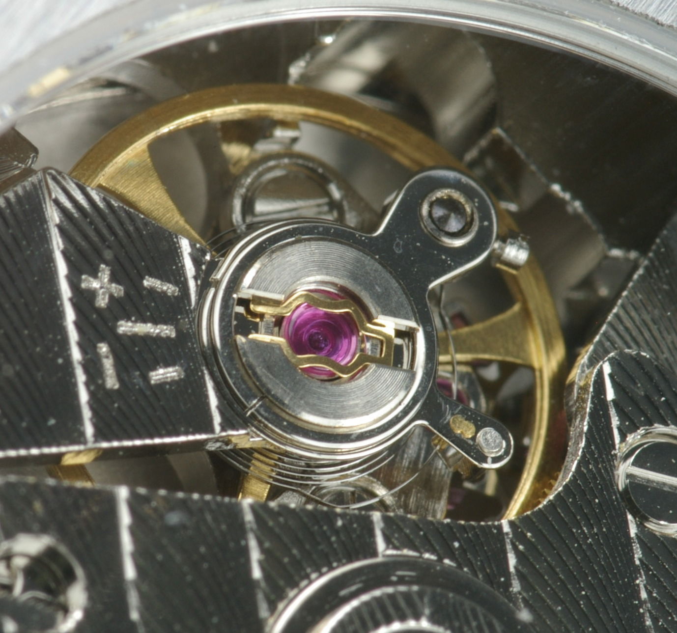 A balance wheel on a new watch with a Chinese made movement in a Stauer Dashtronic.